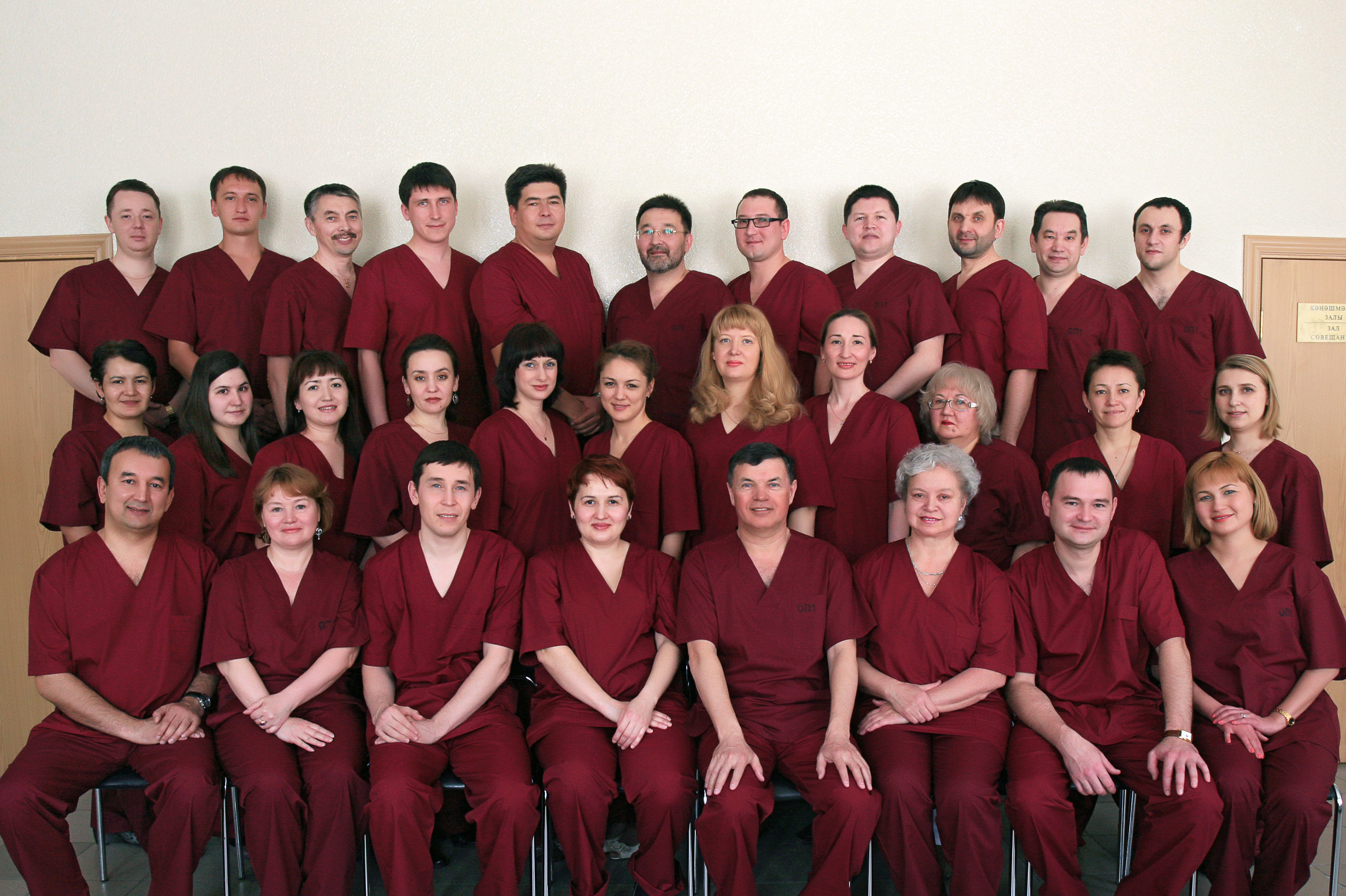 (translation) The institute team. In the middle, the director of the Ufa Research Institute of Eye Diseases is Professor Muharram Muhtaramovich Bikbov.